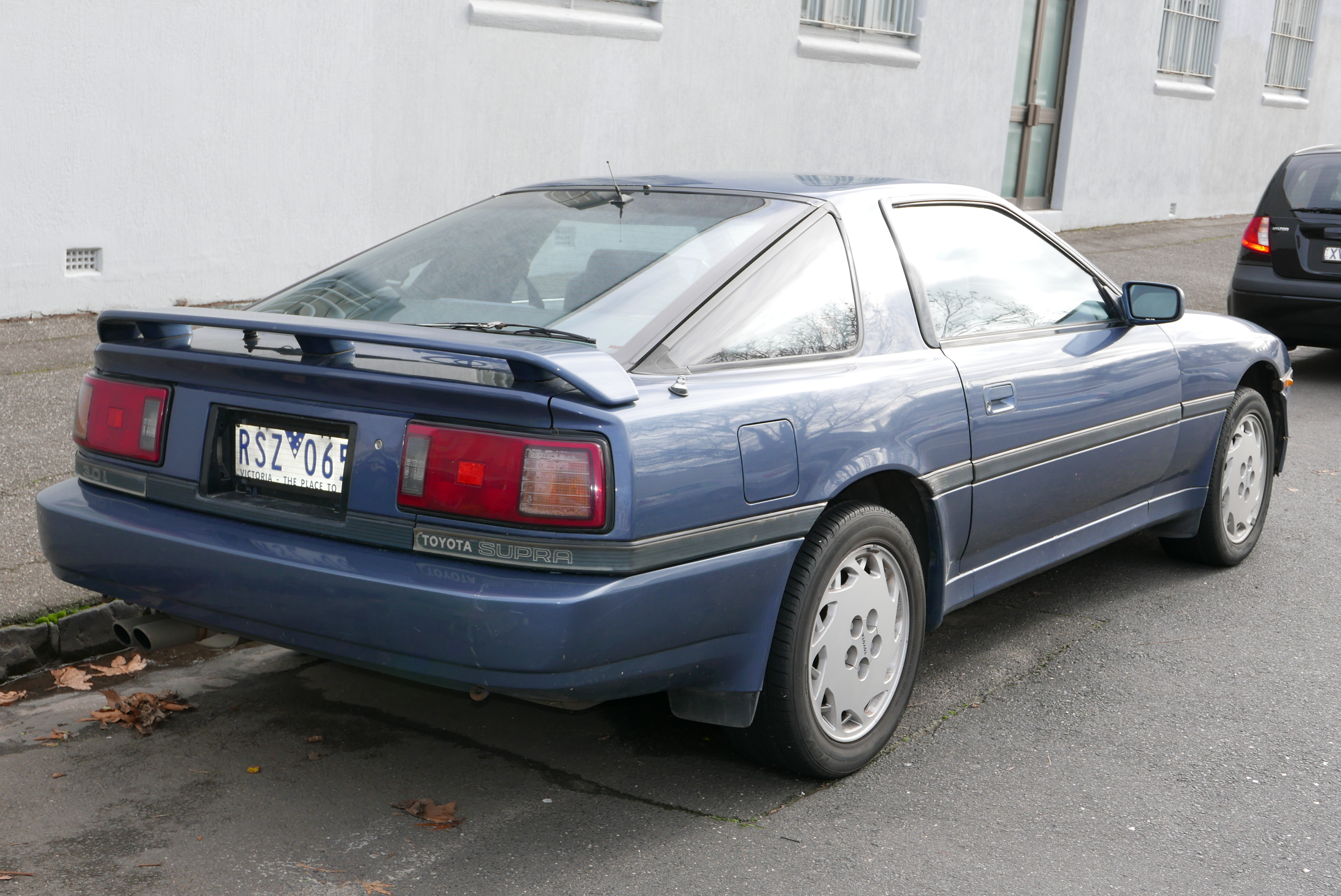 1986 Toyota Supra (MA70) liftback. Photographed in Fitzroy North, Victoria, Australia. Vehicle registration enquiry results Jurisdiction Victoria Registration RSZ065 Chassis code Not available Engine code 7M409055 Compliance date Not available Year of manufacture 1986